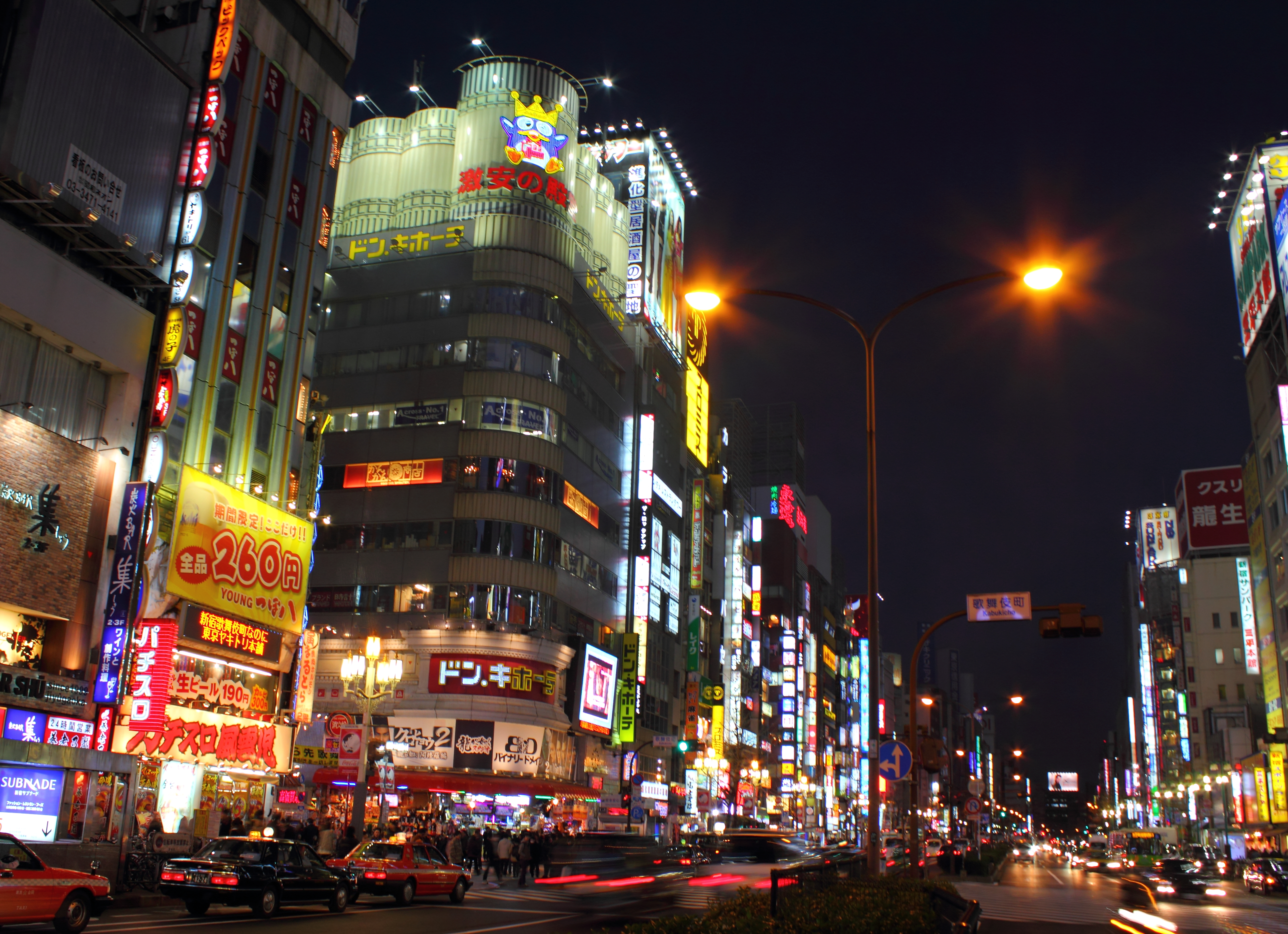 Kabukicho in Shinjuku, Tokyo